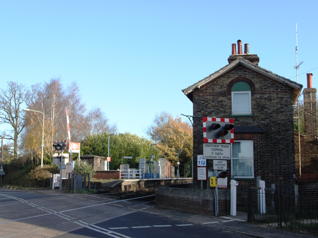 Westerfield station in Suffolk is the junction between the East Suffolk and Felixstowe lines. This view is looking northwards towards Saxmundham and Felixstowe.